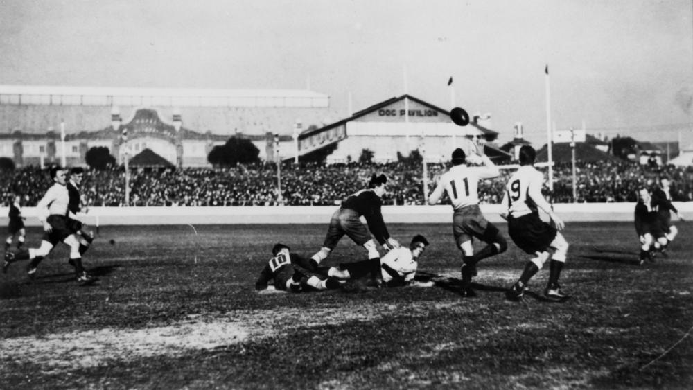 A rugby league match between Queensland and New South Wales in Brisbane, Australia. Cec Aynsley (Queensland) has just effected a tackle in the middle. Jimmy Craig (New South Wales) is coming up on the left. (Description supplied with photograph.) Possibly played at Exhibition Grounds, Brisbane.